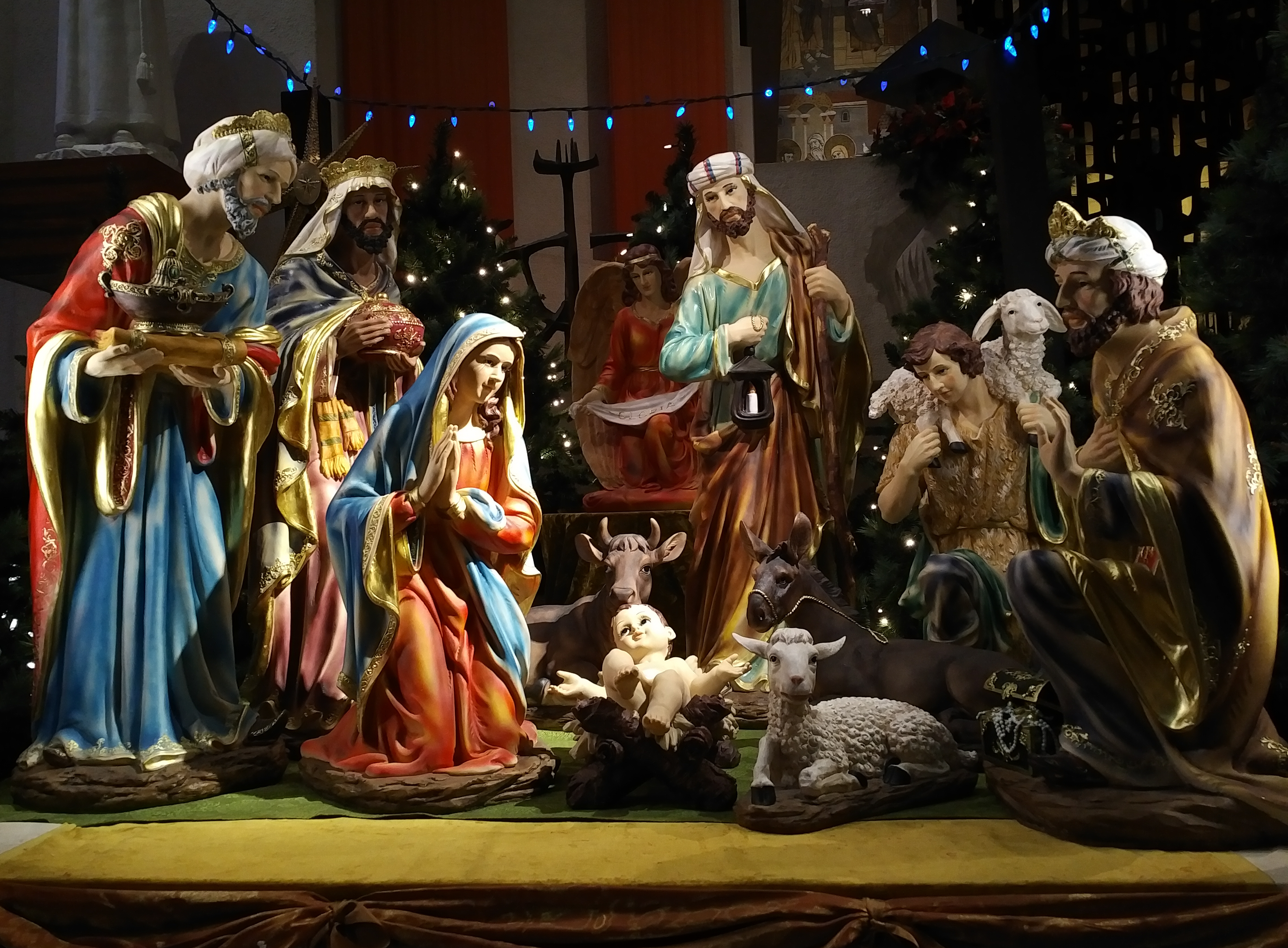 Nativity scene, Saint-Joseph oratory, Montréal.